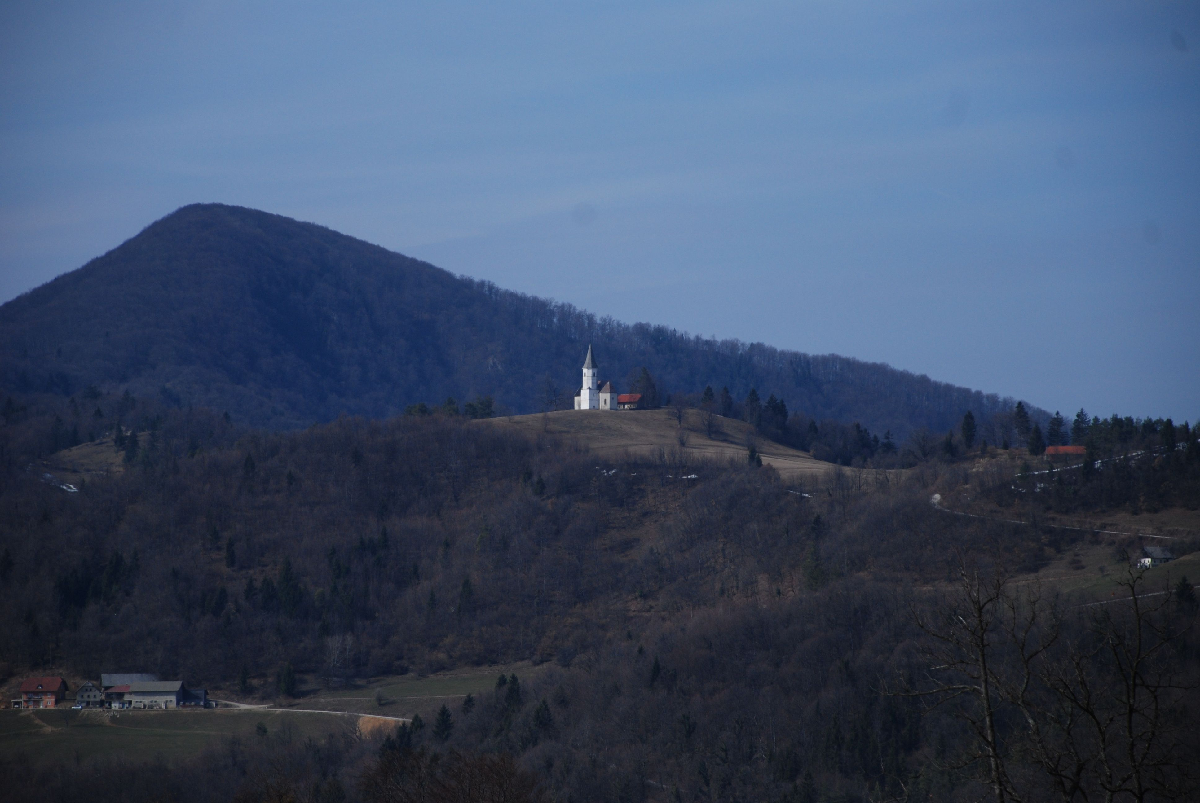 St. Lawrence's Church (722 m), Okroglice, Slovenia. The hill behind is Big Kozje Hill (Veliko Kozje, 993 m). Taken from above Lisce, the hamlet of Razbor. The border between the Municipality of Sevnica and the Municipality of Laško runs approximately on the ridge behind the church almost to the top of Big Kozje Hill.